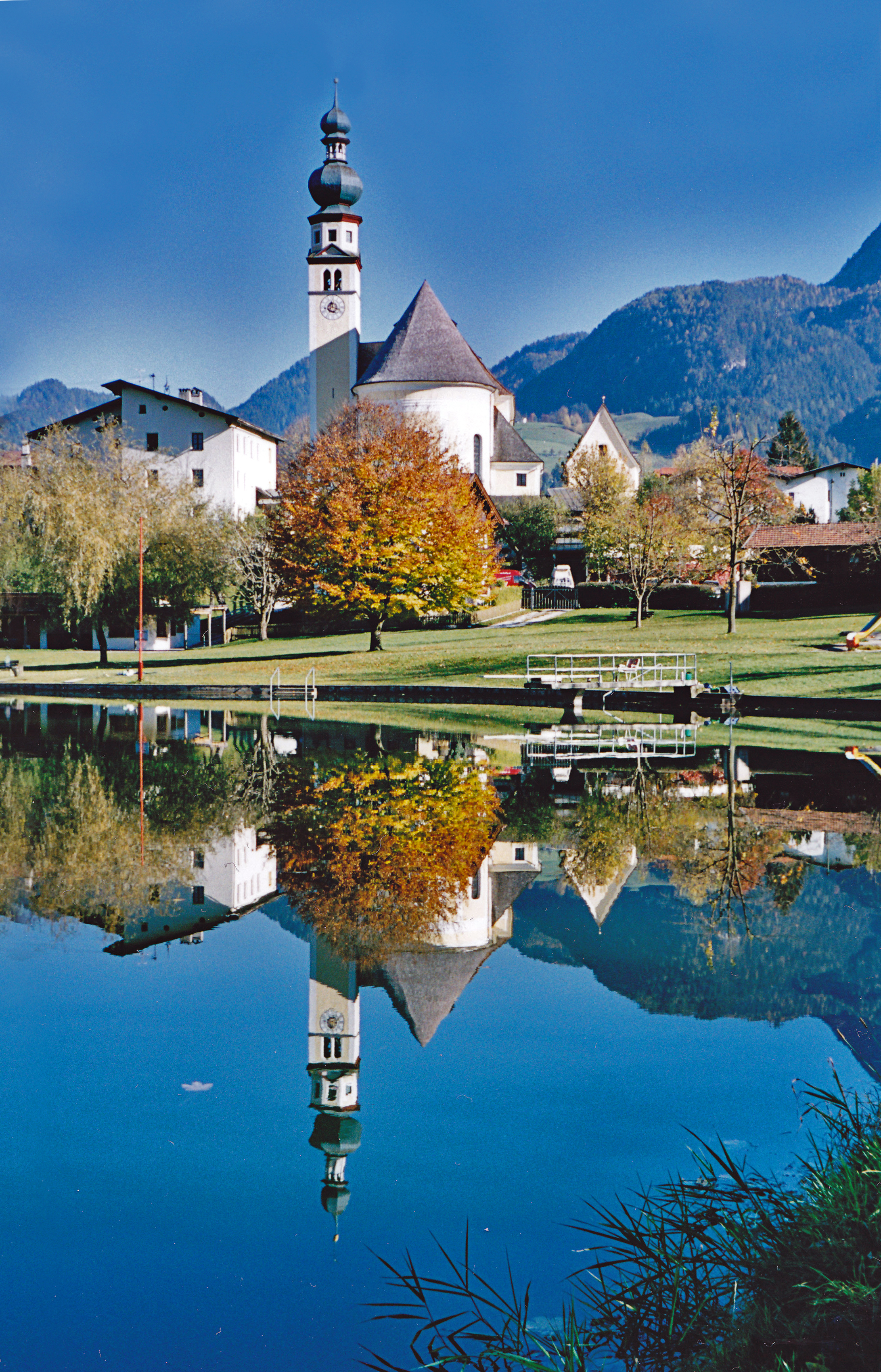 Reith im Alpbachtal